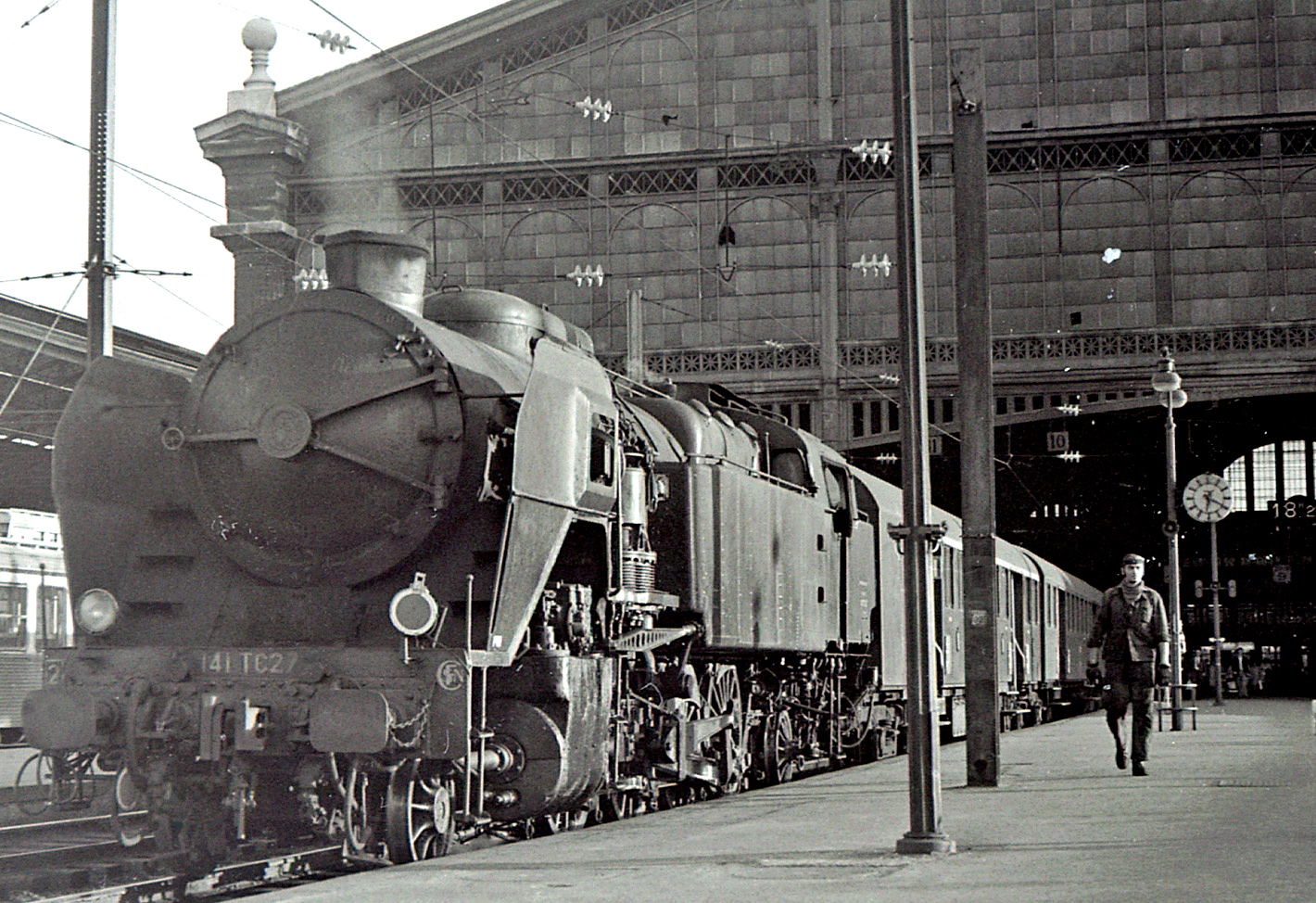 141TC27 at Paris Gare du Nord, late August 1970